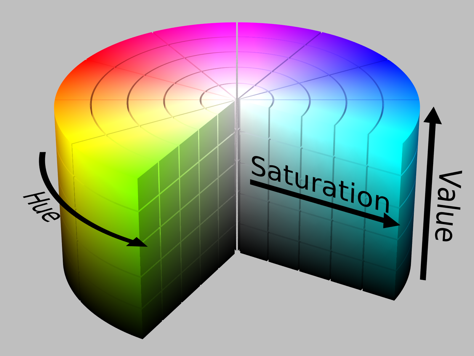 The HSV color model mapped to a cylinder. POV-Ray source is available from the POV-Ray Object Collection.